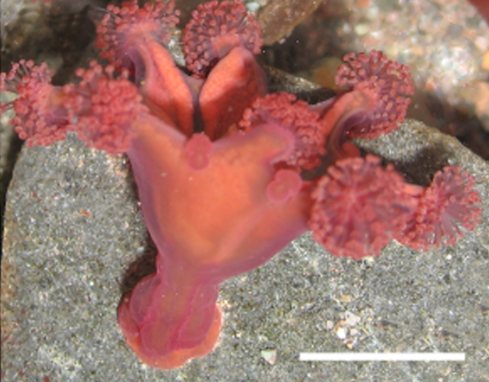 Living specimens of Haliclystus antarcticus in the field. Side view, attached to rock. Scale bar – 1.2 cm.